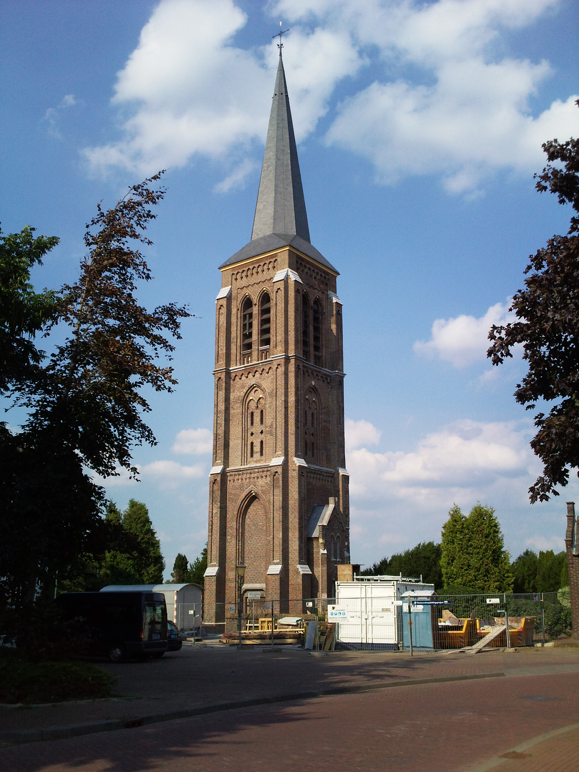 Church tower Gennep, NL, after renovation 2009-2010